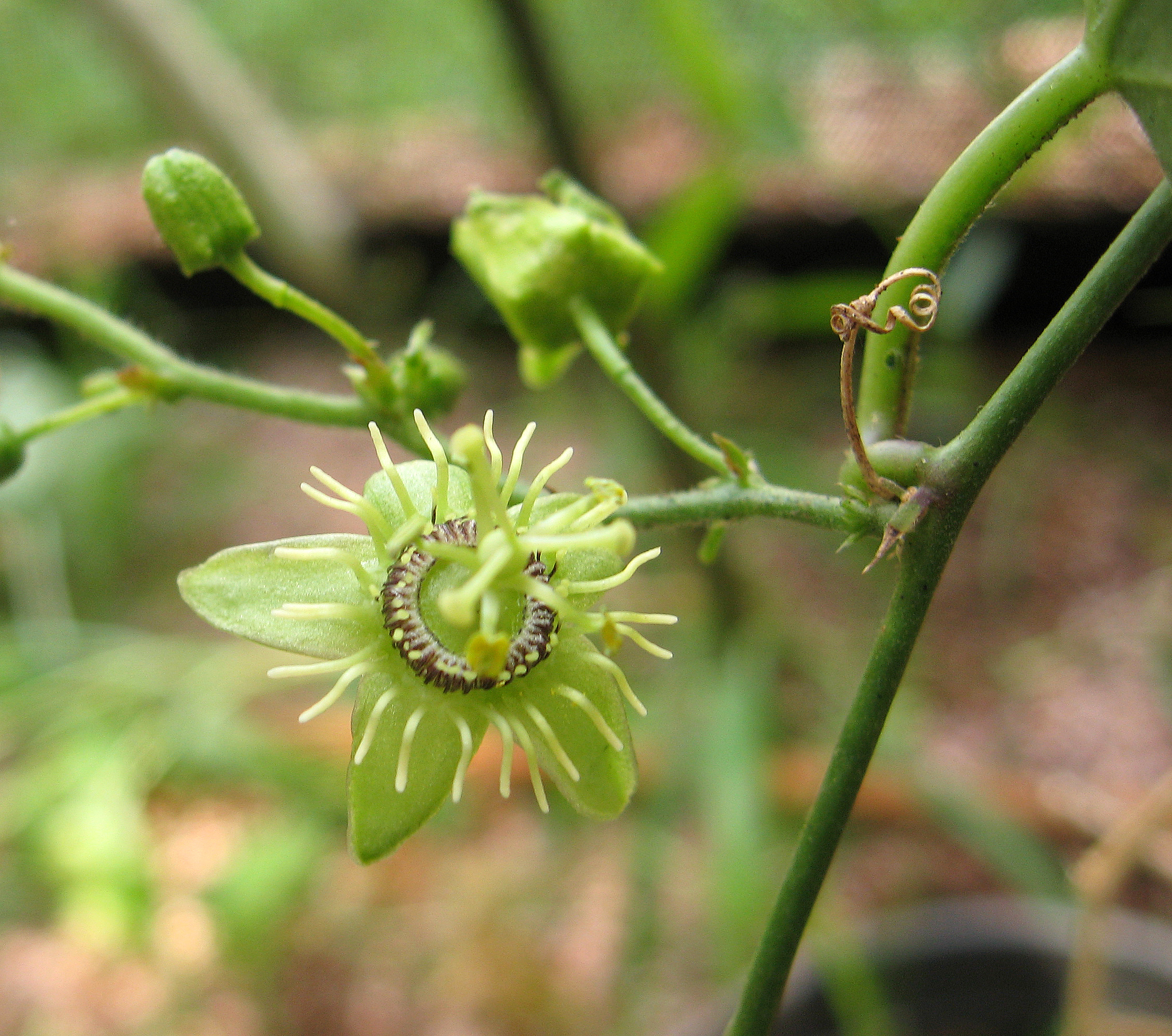 Close-up of a passion flower, Passiflora suberosa, taken at Porto Alegre, southern Brazil